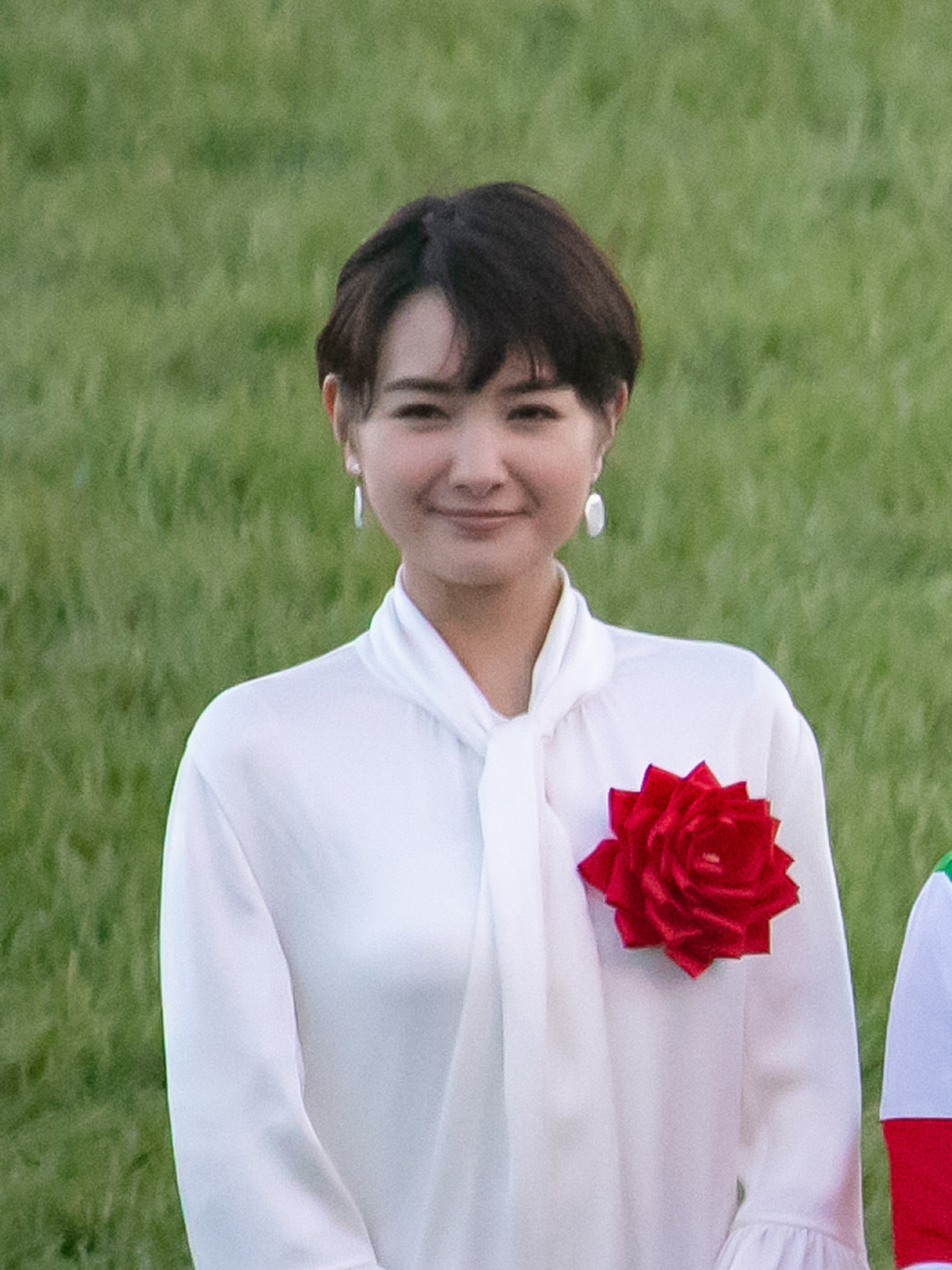 Wakana Aoi in Nakayama Racecourse.